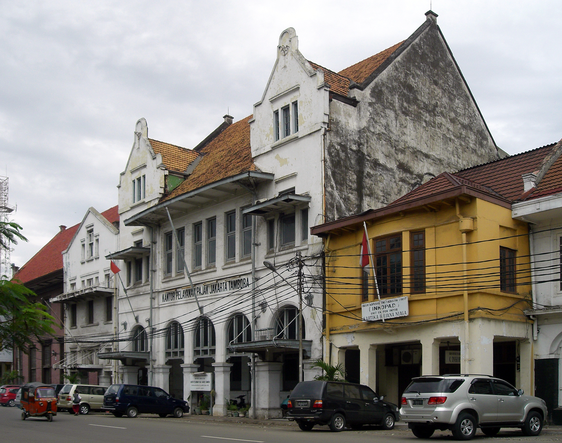 The colonial building Jakarta Tambora Tax Office, On further left is "Toko Merah" (Red Shop). Jakarta old town area, former downtown Batavia.